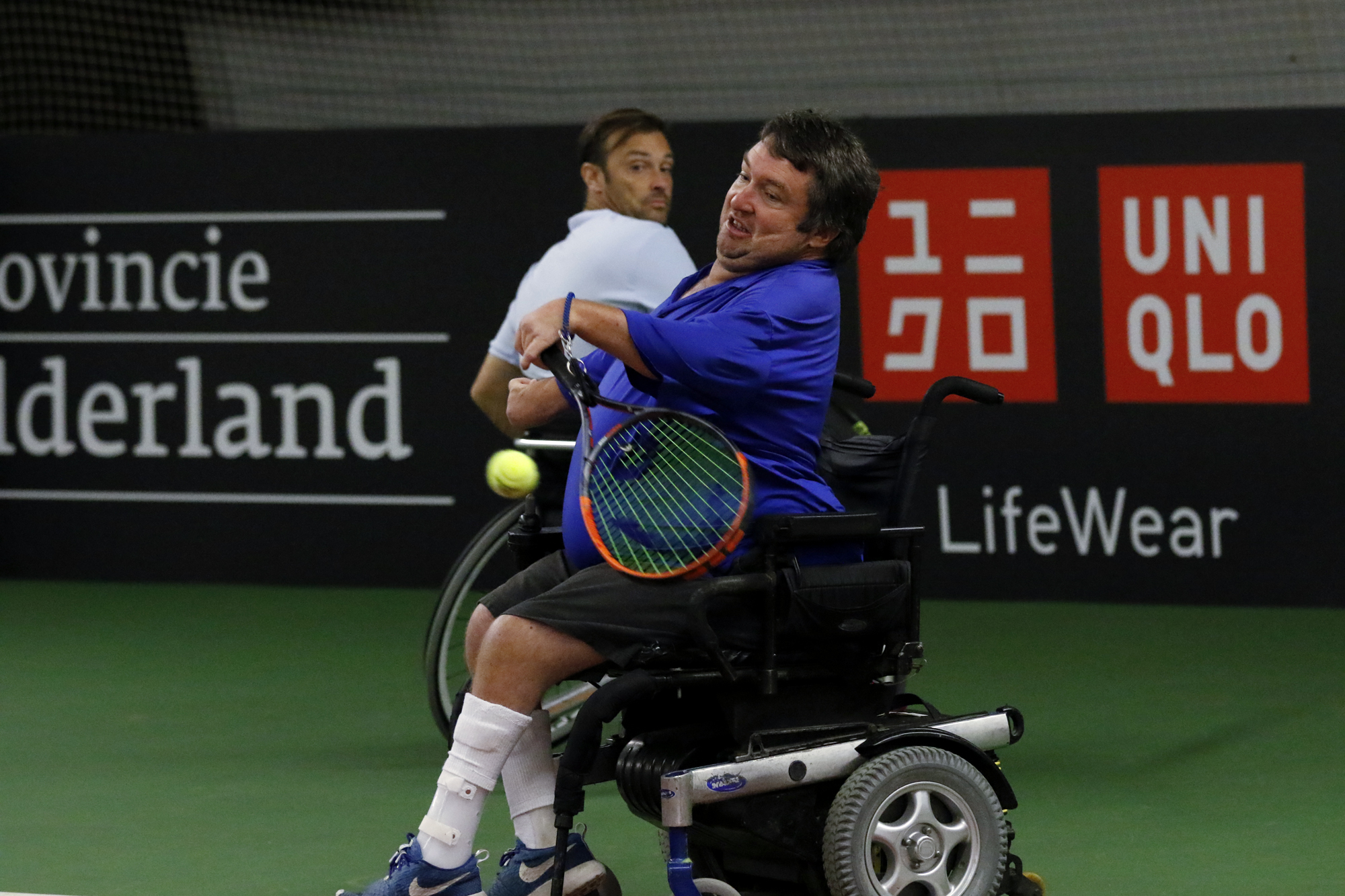 Nick Taylor and David Wagner during a match at the 2017 wheelchair tennis doubles masters in Bemmel, Netherlands.